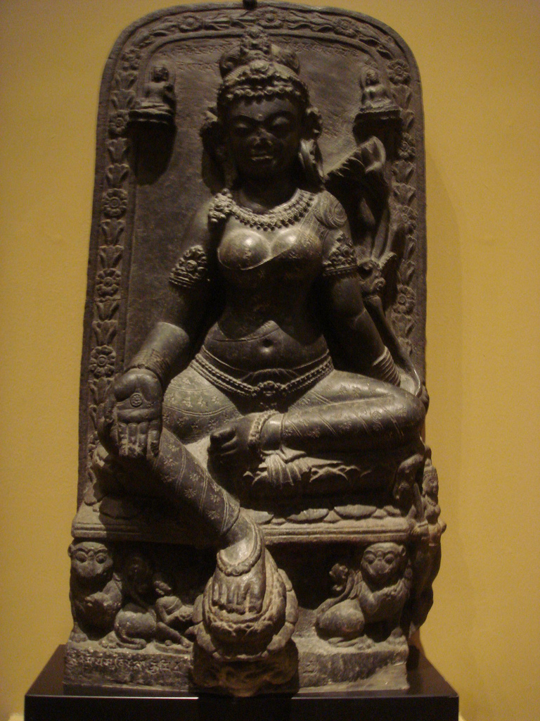 India, Bihar, Patna District, South Asia The Buddhist Goddess Shyama Tara (Green Tara), 9th century Sculpture; Stone, Biotite schist, 34 x 17 3/4 x 9 in. (86.36 x 45.08 x 22.86 cm) From the Nasli and Alice Heeramaneck Collection, Museum Associates Purchase (M.76.2.30) Wikipedia Loves Art at the Los Angeles County Museum of Art This photo of item # M.76.2.30 at the Los Angeles County Museum of Art was contributed under the team name "ARTiFACTS" as part of the Wikipedia Loves Art project in February 2009. Los Angeles County Museum of Art The original photograph on Flickr was taken by sisleyceli—please add a comment to the original Flickr page whenever a use has been made on Wikipedia or another project. Project galleries on Flickr: this institution, this team